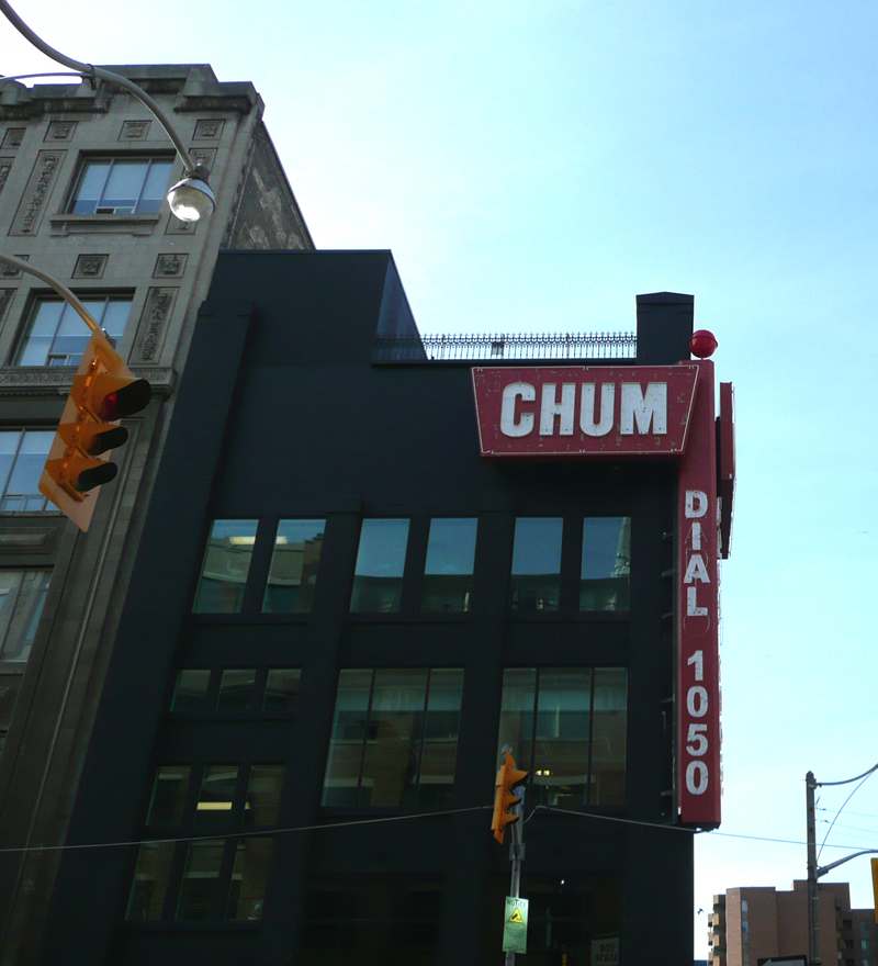 250 Richmond Street West, a radio broadcast facility attached to 299 Queen Street West, Toronto, Canada.